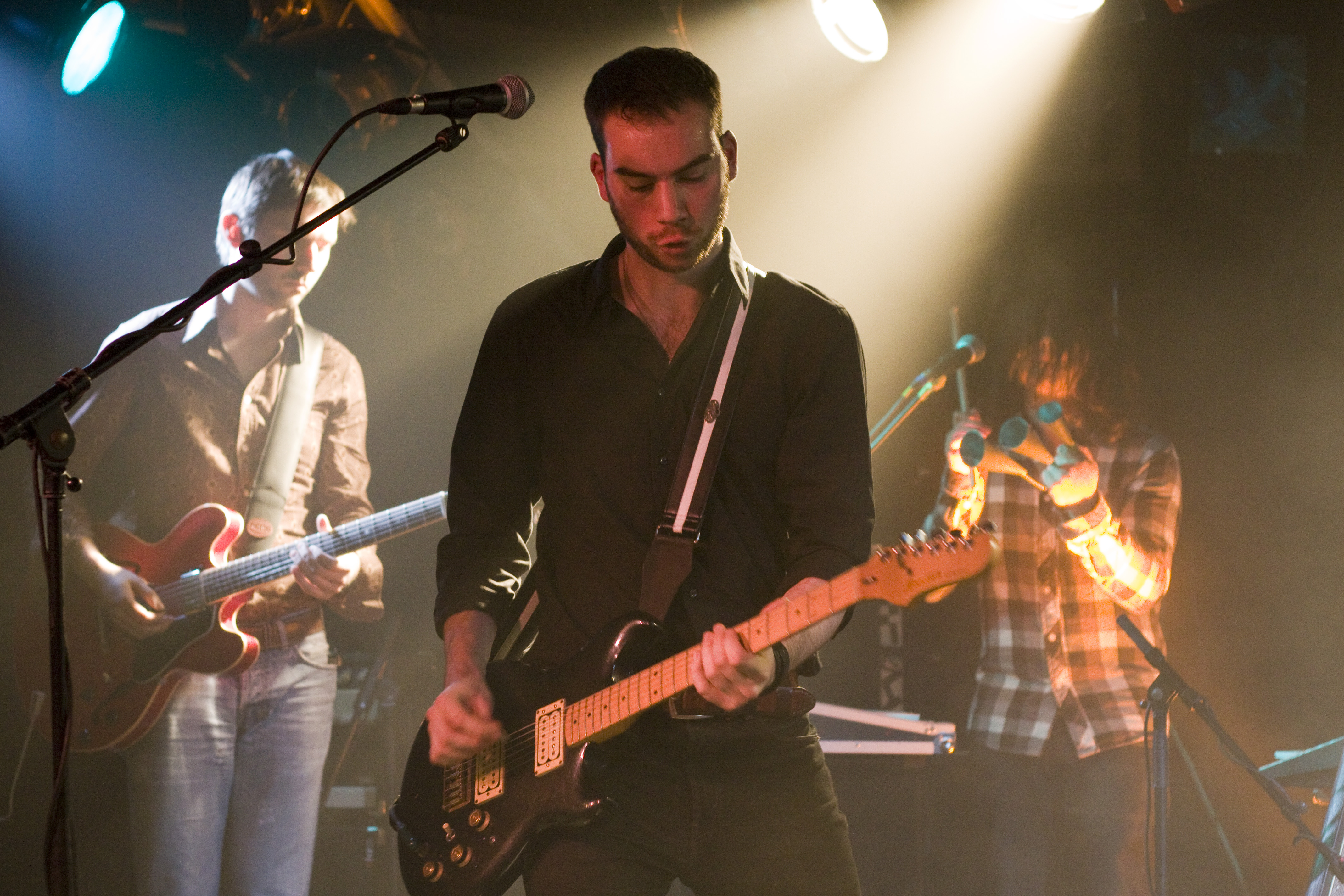 The Dutch band De Staat, performing at Unitas in Wageningen.